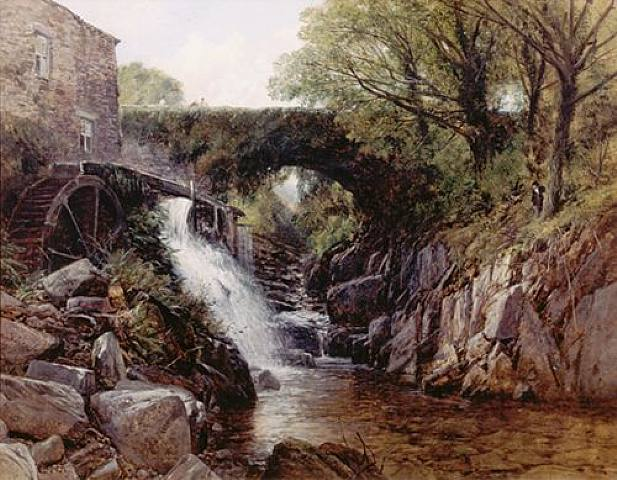 Pont Hoogan Mill by Frederick William Hulme who died in 1884 in London